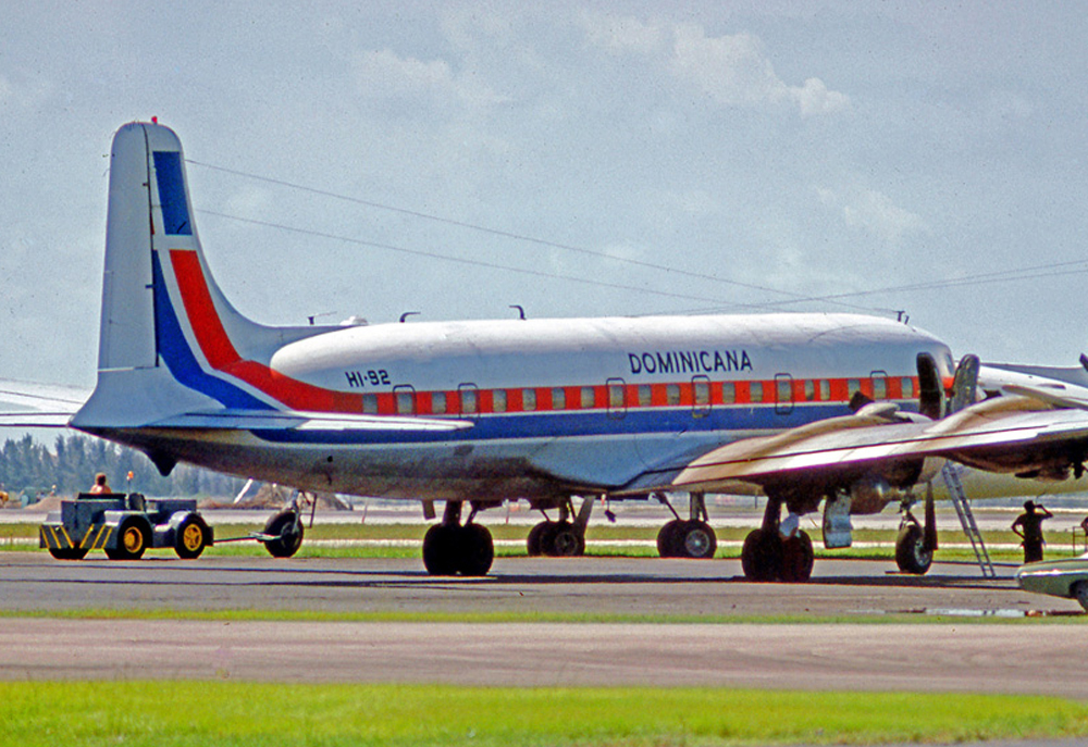 Douglas DC-6B freighter of Dominicana de Aviacion at Miami Airport in 1975